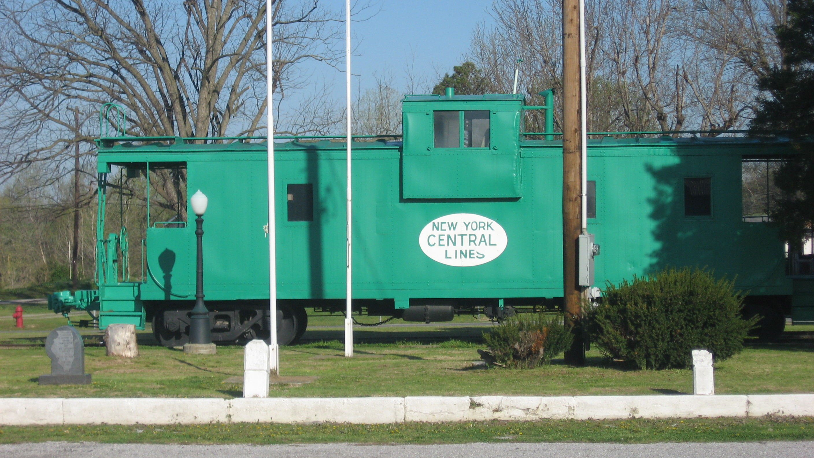 Former New York Central caboose by the former depot in downtown Olmsted, Illinois, United States.